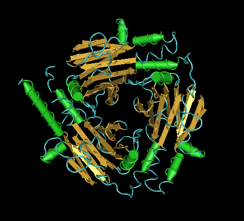 Created using Cn3D using file located at According to their copyright notice: "Government information available from this site is within the public domain. Public domain information on the National Library of Medicine (NLM) Web pages may be freely distributed and copied. However, it is requested that in any subsequent use of this work, NLM be given appropriate acknowledgment."